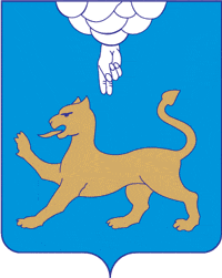 Pskov, coat of arms